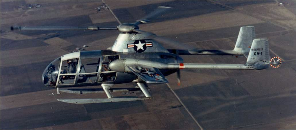 McDonnell XV-1